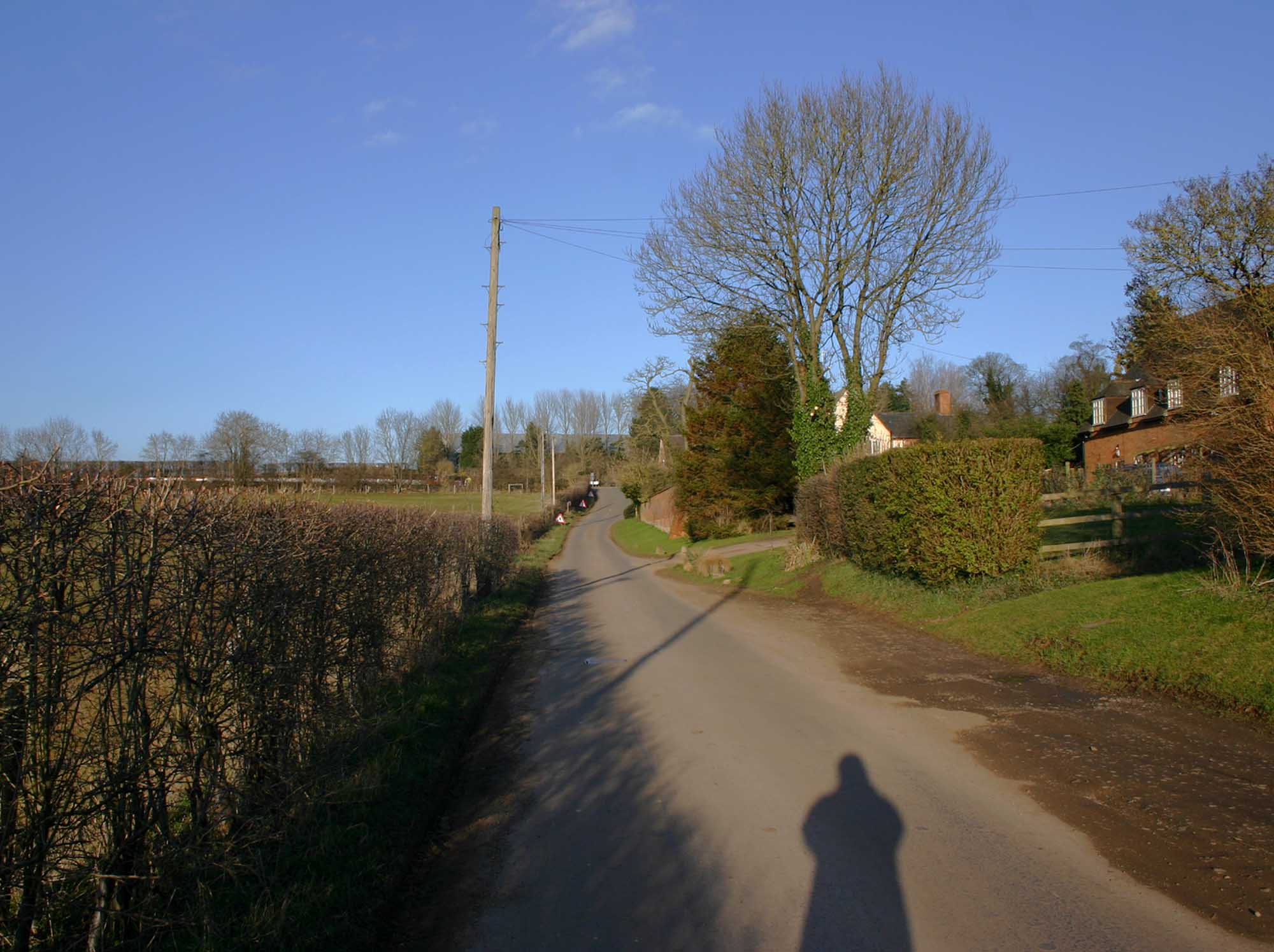 Ailstone Hamlet View ENE up the lane that comprises Ailstone, towards the junction with the A3400.